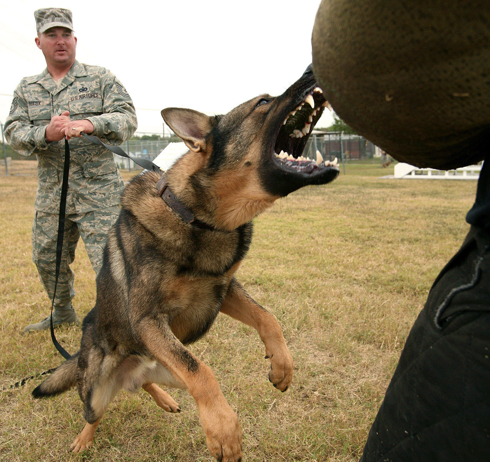 Trained attack dog Samo leaps forward toward a decoy's arm wrap as Tech. Sgt. David Adcox restrains him.